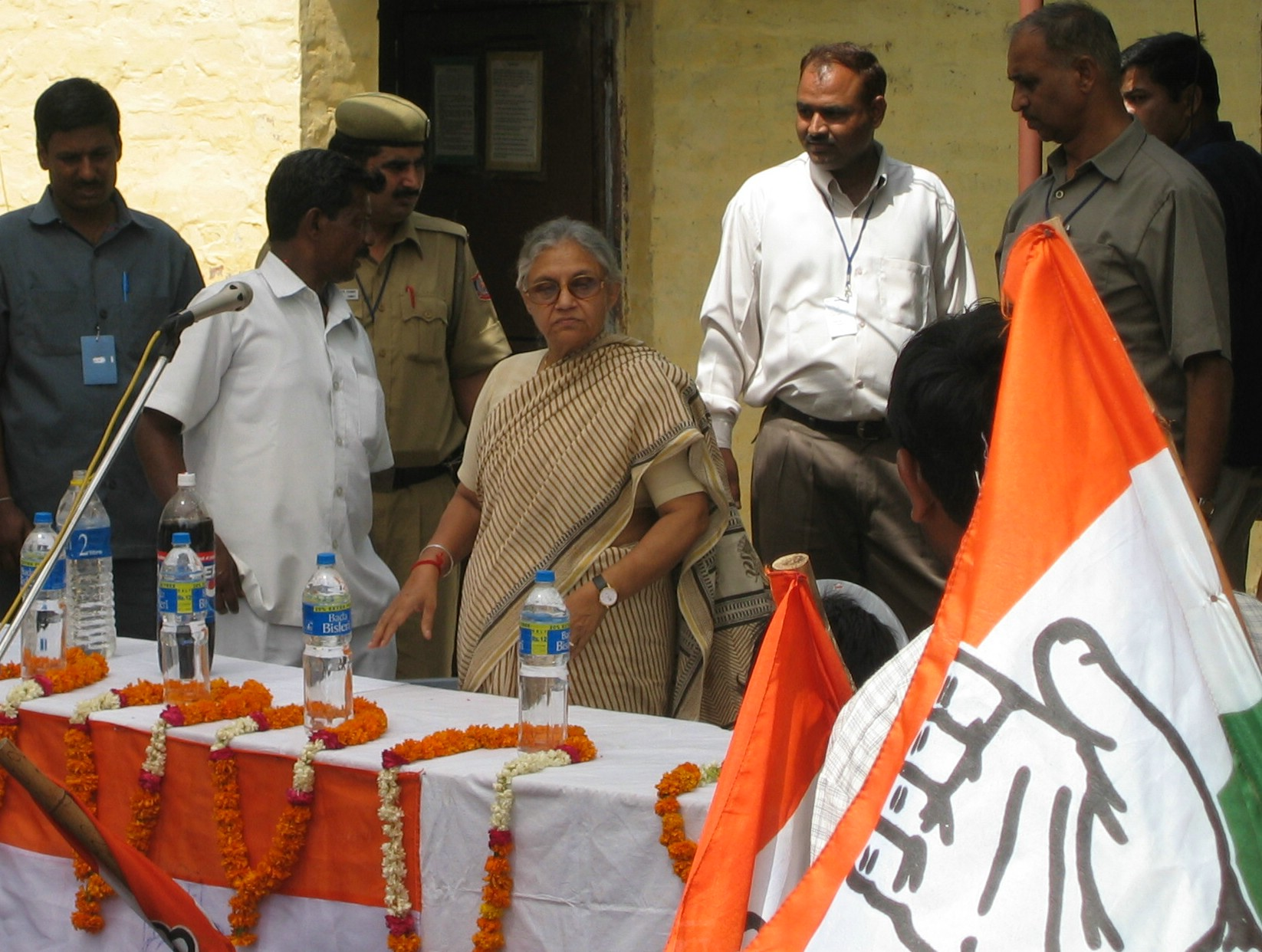 Sheila Dikshit, Chief Minister of Delhi, India giving a speech at the Vivekanand slum colony in New Delhi on May 16 2004. Photo taken by Warren Apel.